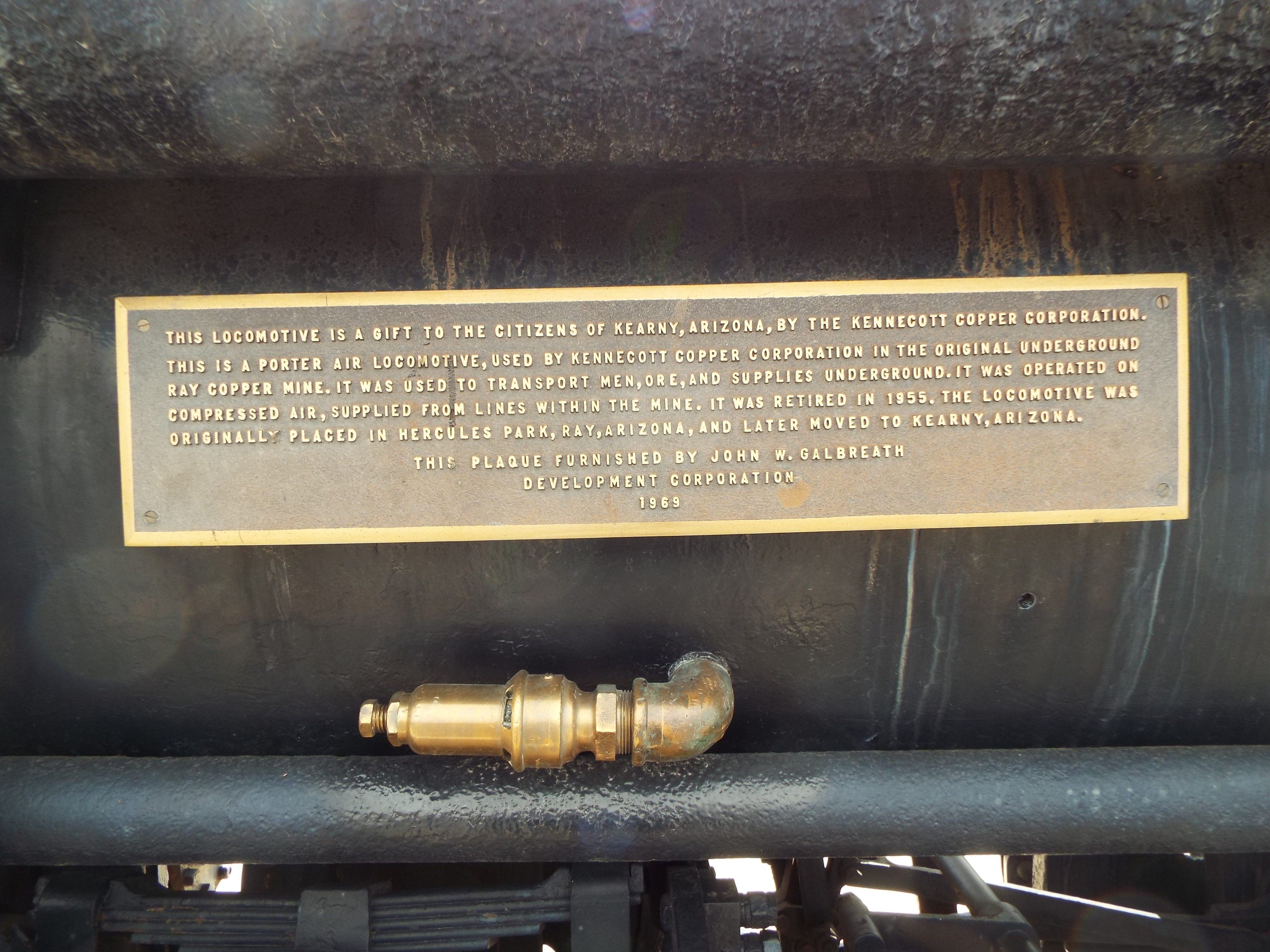 Porter Air Locomotive built in 1925 and located in Kearny, Arizona